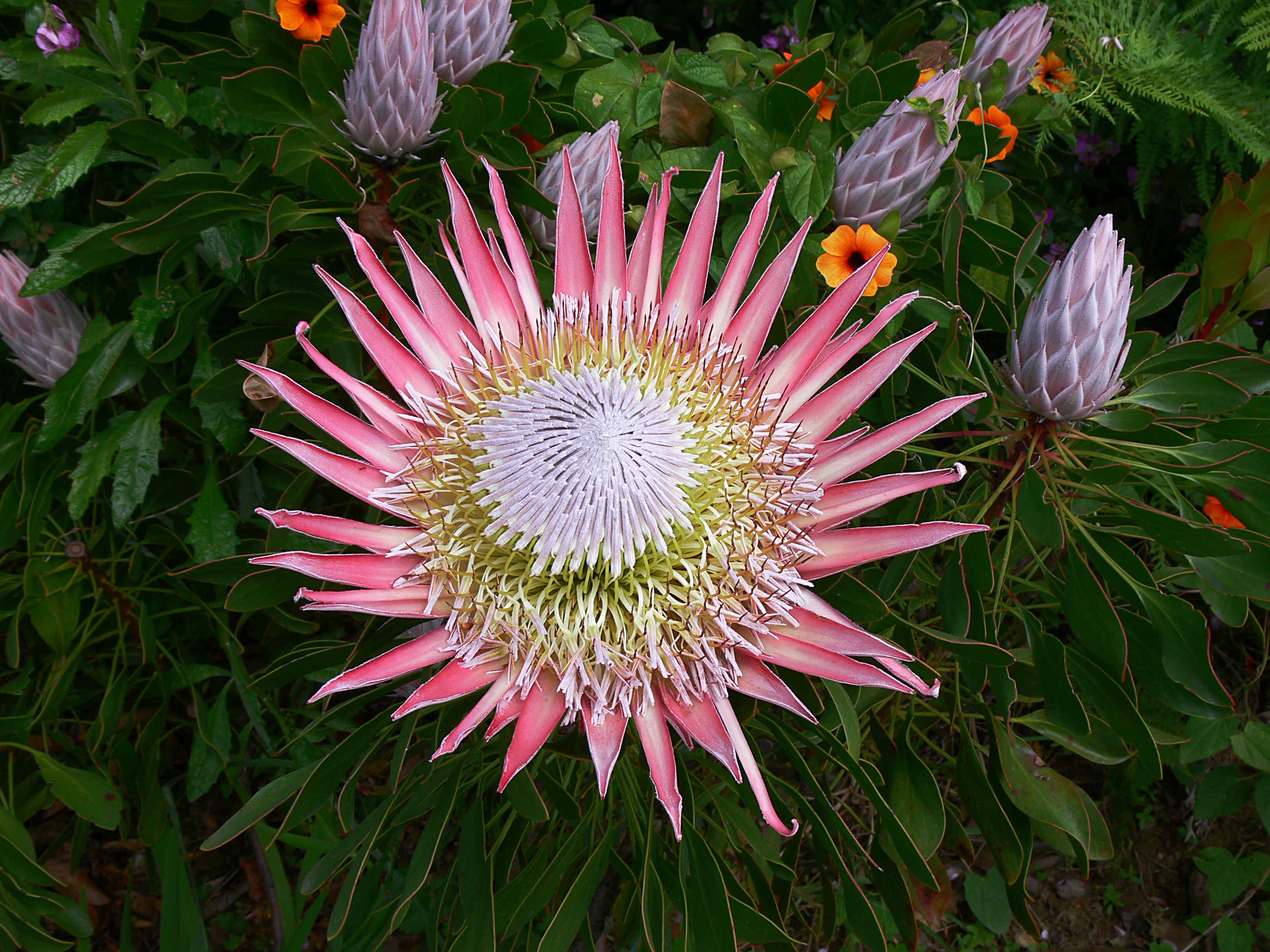 Kingprotea (P. cynaroides), Western Cape, South Africa